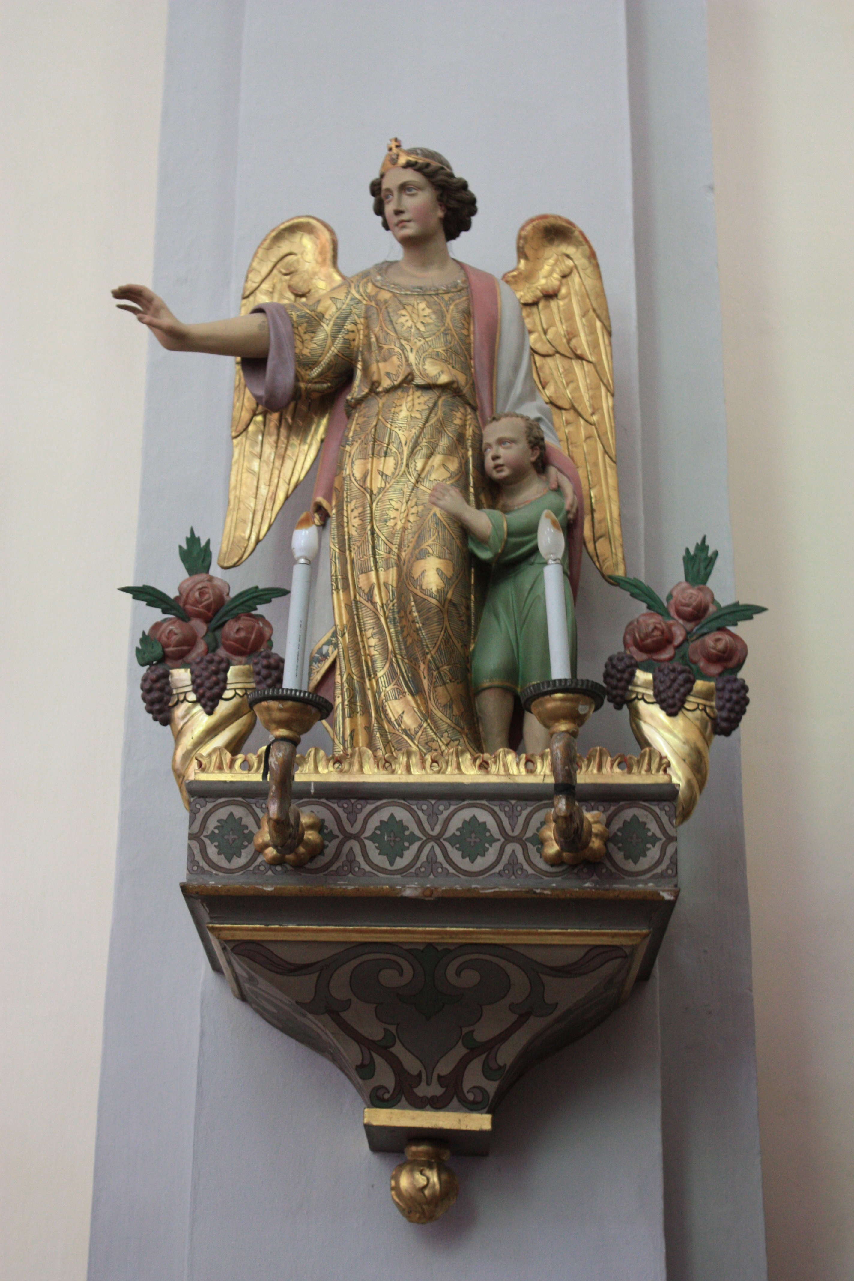 Parish church Saint Oswald: Guardian angel Locality:Oberdrauburg Community:Oberdrauburg